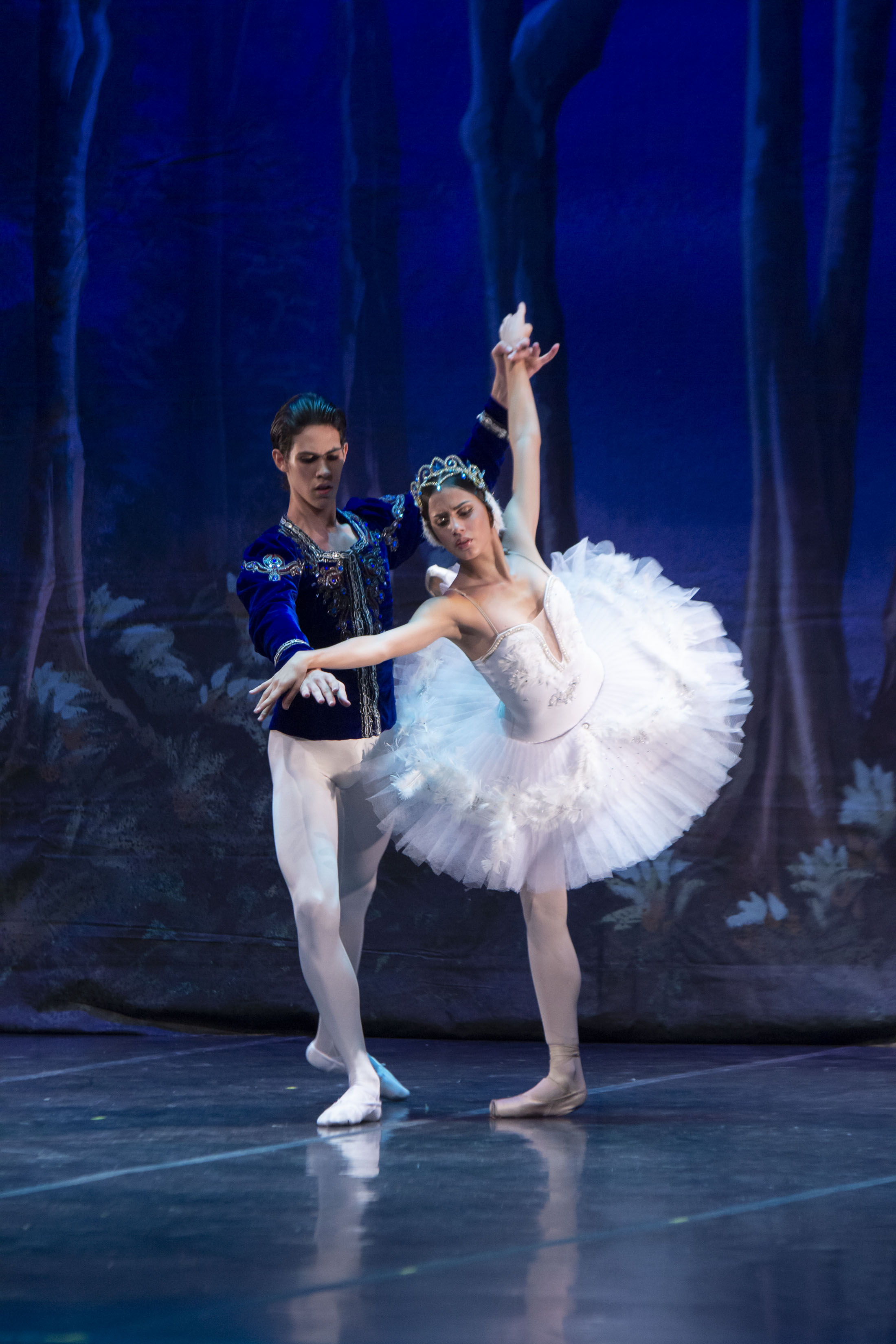 Teachers and students from The Cuban National Ballet School "Fernando Alonso" at a gala in Mexico City. Tuesday, 16 July, 2019. Picture by Jesus Murillo / Secretaria de Cultura de la Ciudad de Mexico.